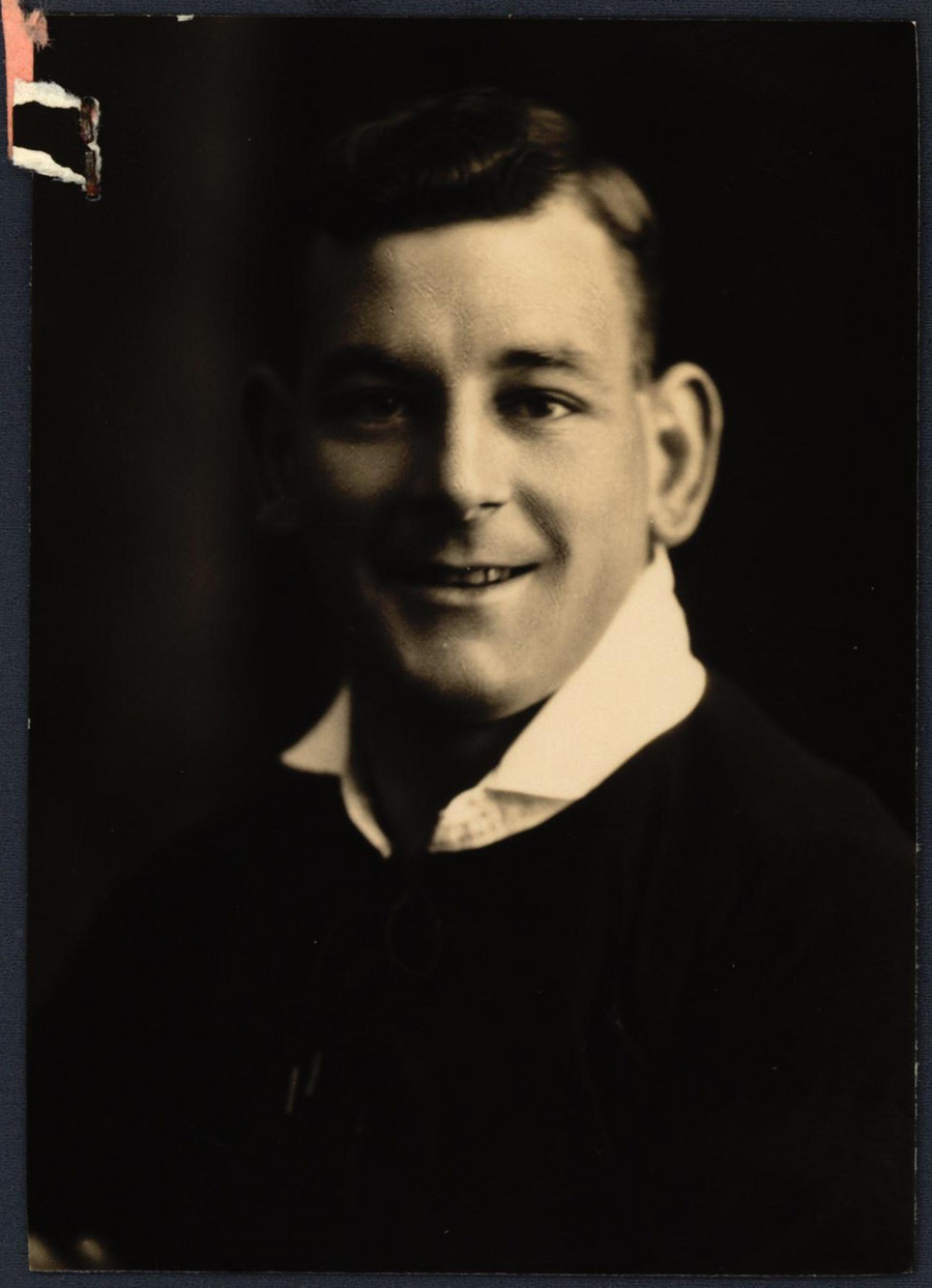 Archives New Zealand Reference: ACGO 8333 IA1 1350 / 15/11/59182